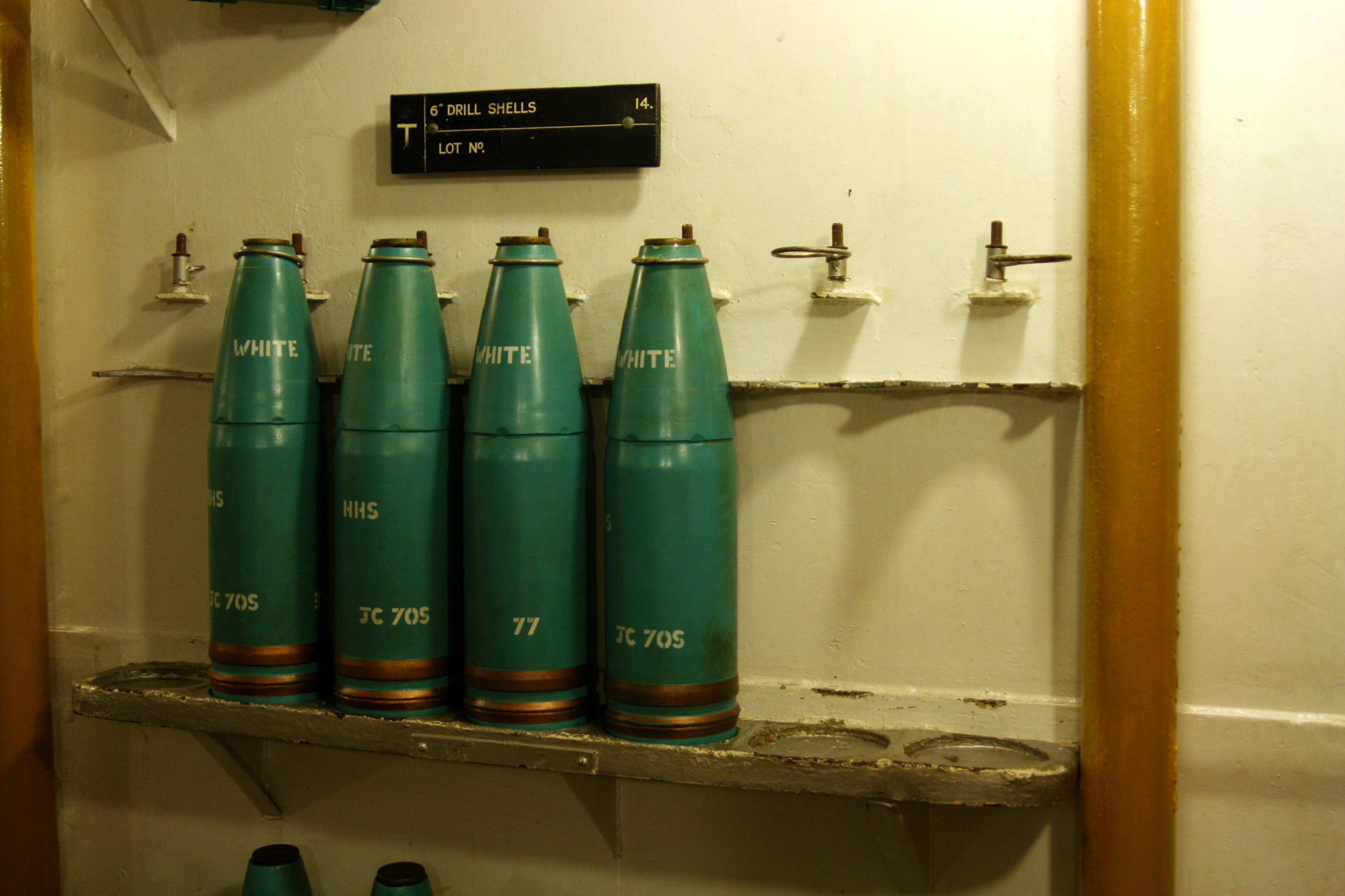 Inside a shell room on the HMS Belfast, under one of the 6" turrets. Stowage for practice shells.